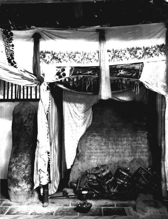 Stone with inscriptions, the batu tulis